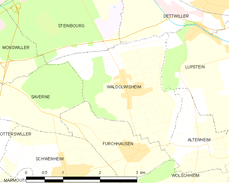 Map of French municipality